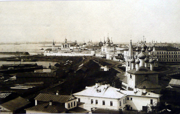 View from the cathedral belltower toward the Saviour Monastery in Yaroslavl